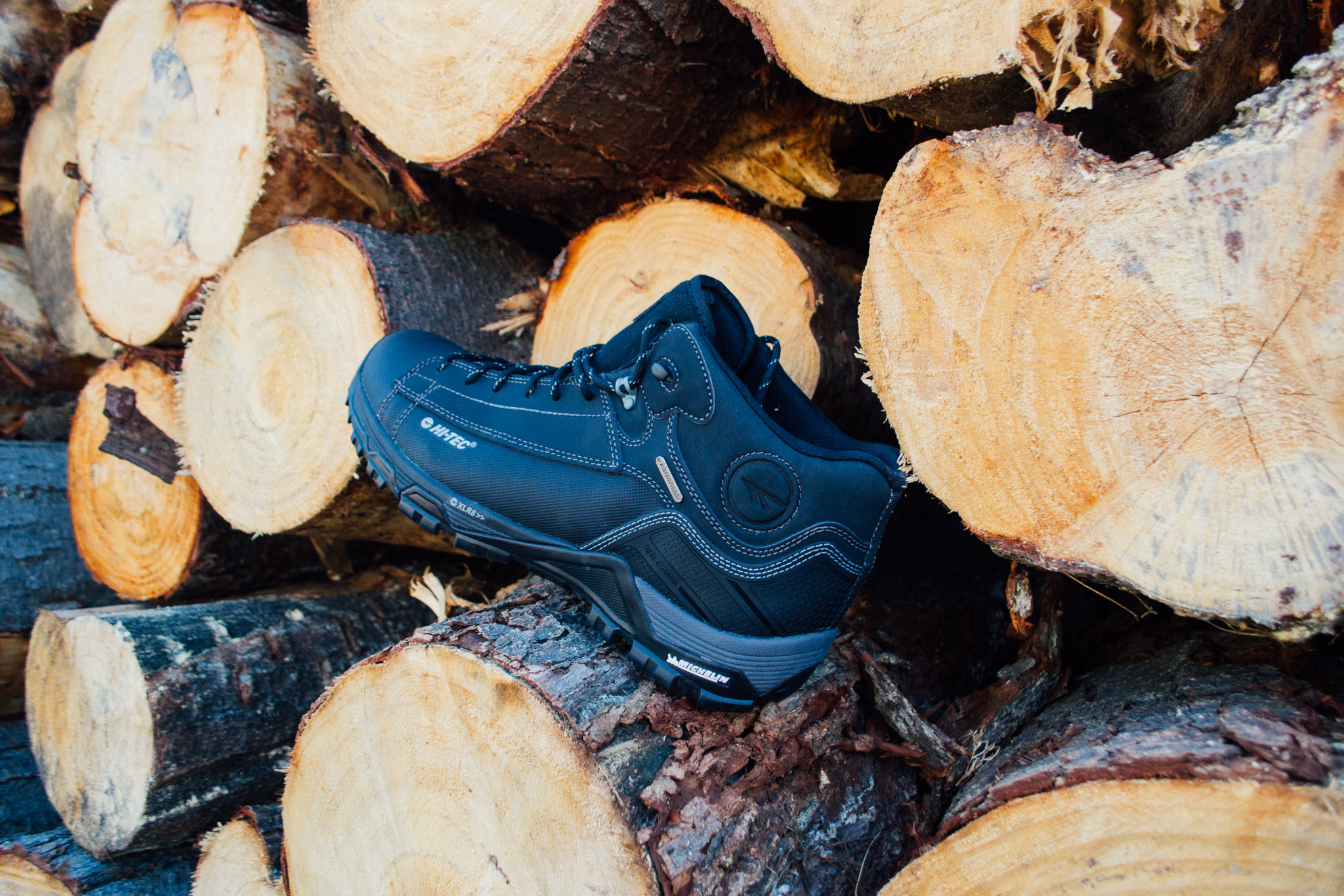 Hi-Tec OX Chukka - Vaughan McShane - #ComfortableAnywhere